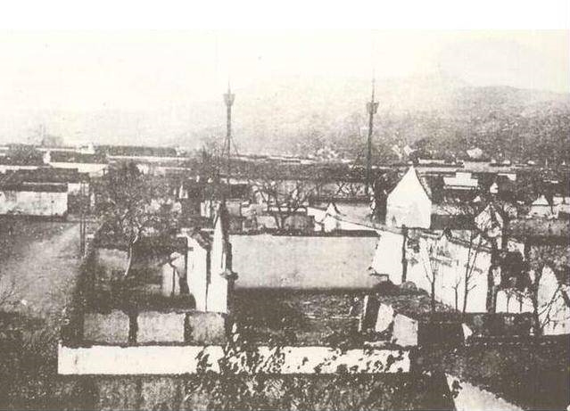 Photo of Jinchaidai alley from around 1900 to 1920, used on the official historical plaque for 19 Jinchaidai Alley ( although the specific version of this image is from The copyright has certainly expired, since it is from around 100 years ago or more.